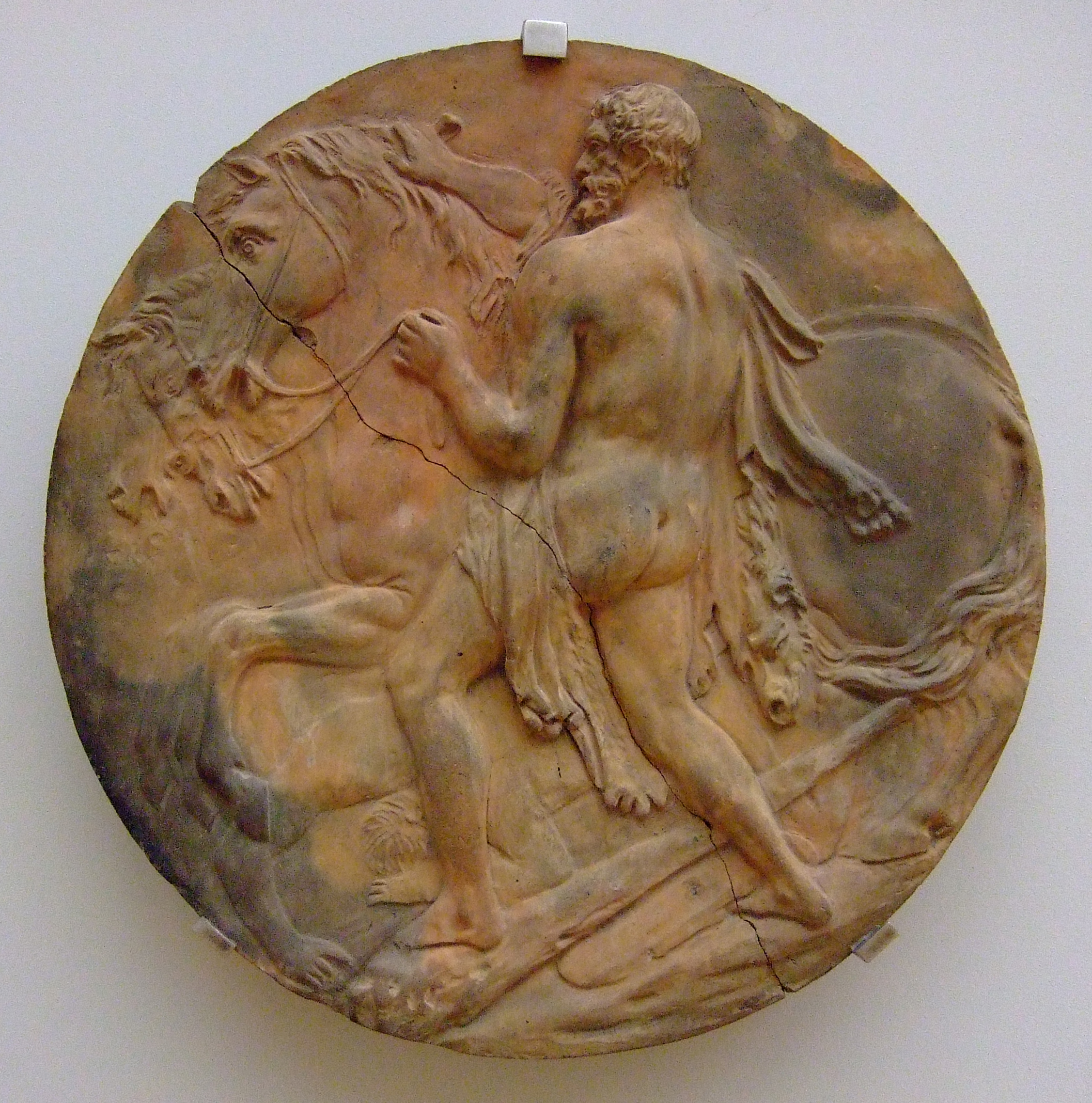 Hercules and the Mares of Diomedes, terracotta relief by Johann Gottfried Schadow, ca. 1790 -- model for one of the tondos of the Brandenburg Gate.